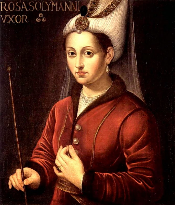 Portrait of Roxelana (c. 1500-1558)